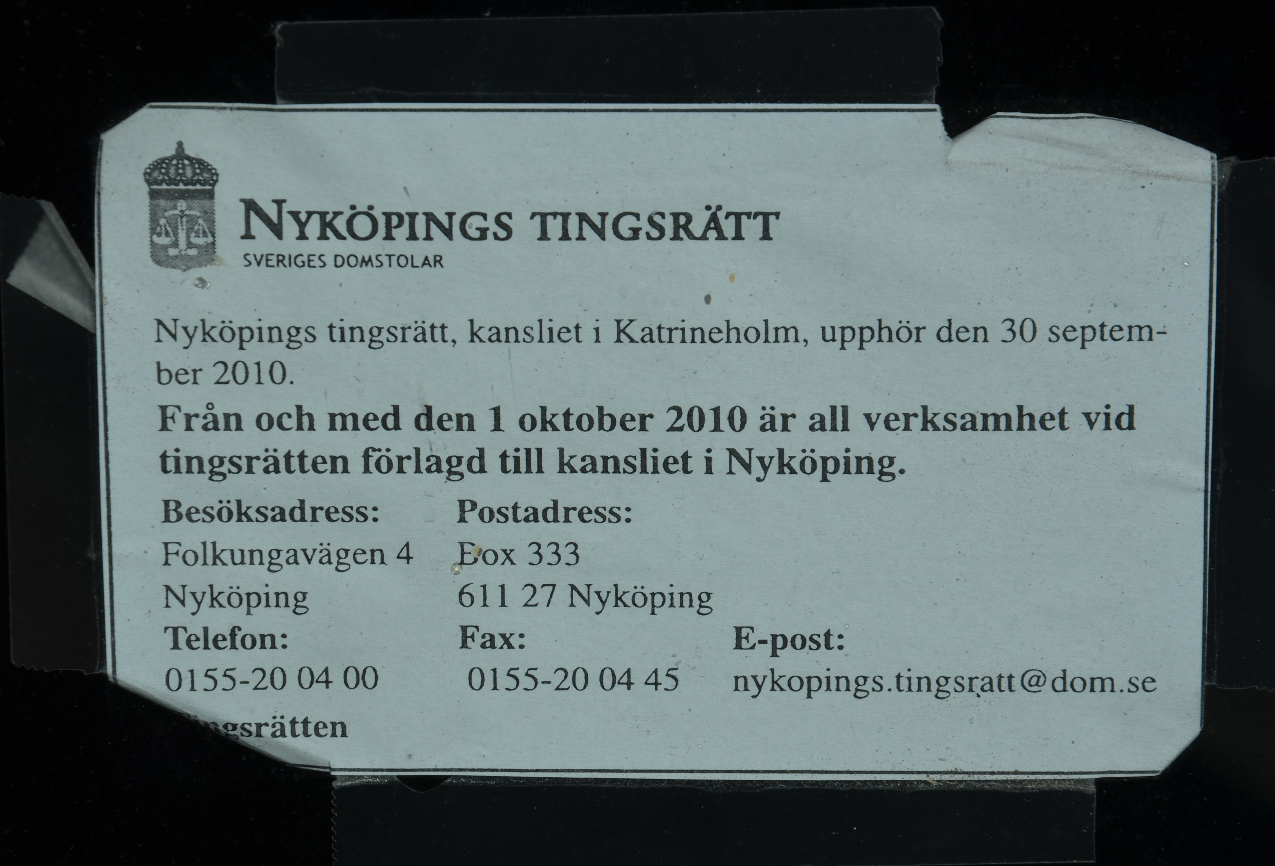 Notice on closure, Katrineholm Court house